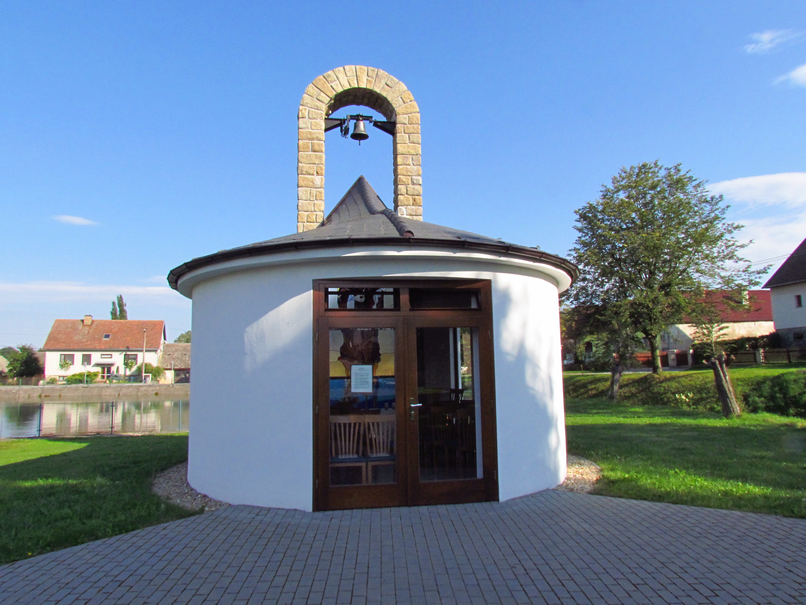 Chapel of Saint Benedictus in Svatoslav, Třebíč District.